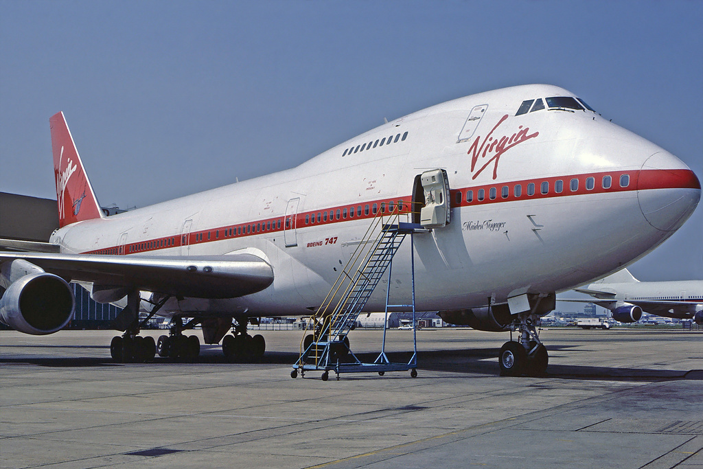 Virgin Atlantic Boeing 747-287 "Maiden Voyager" G-VIRG. Operated the first Virgin Atlantic scheduled service, flying from Gatwick to Newark on 22 June 1984.